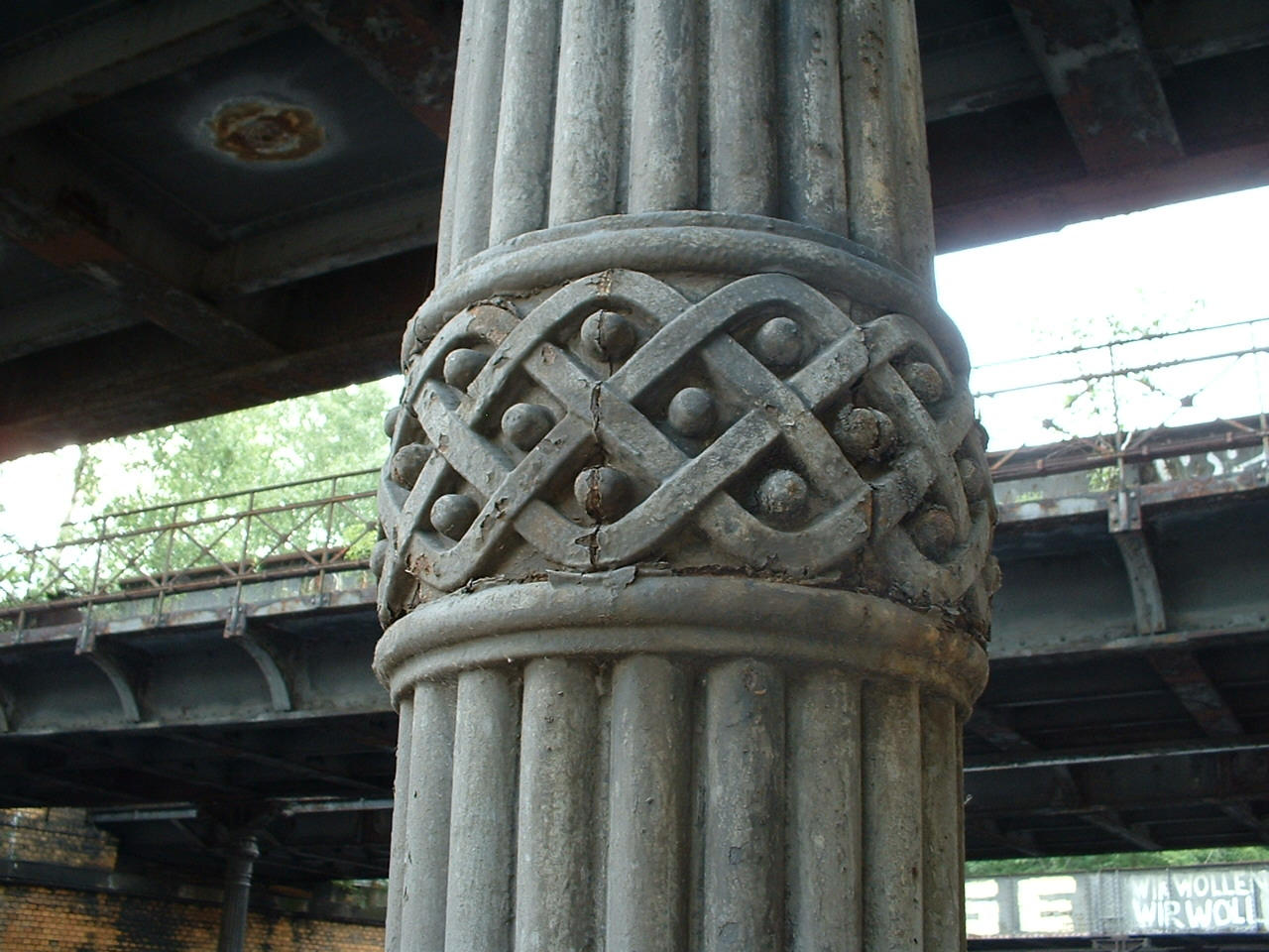 Hartungsche Saeule Bandwerk, Berlin, Yorckbruecken